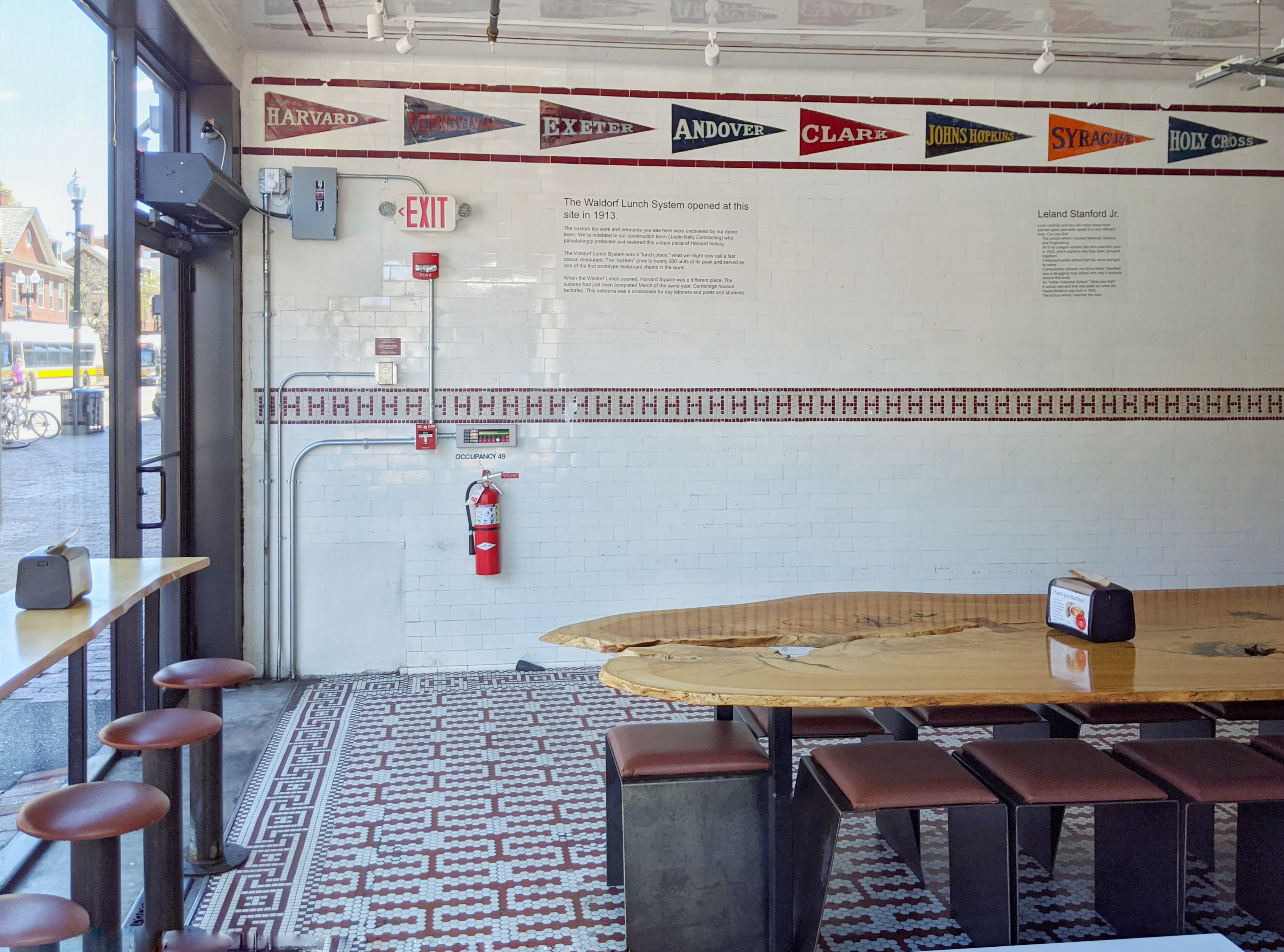 Interior of Clover Food Lab, 1326 Massachusetts Avenue (Harvard Square), Cambridge, MA. Shows original tile installed by Waldorf Lunch System in 1913, including college and prep school pennants.